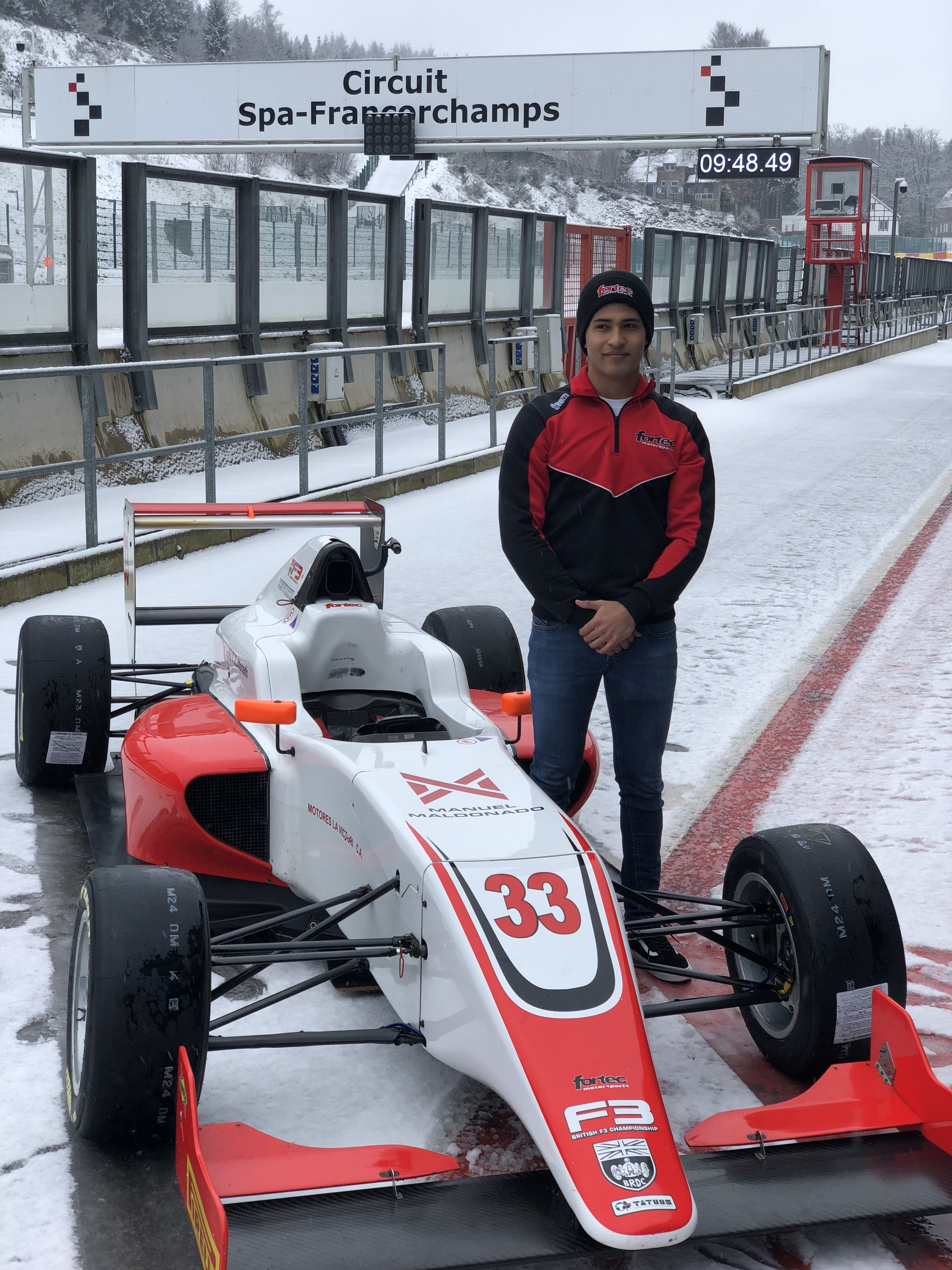 Manuel Maldonado with his British F3 car